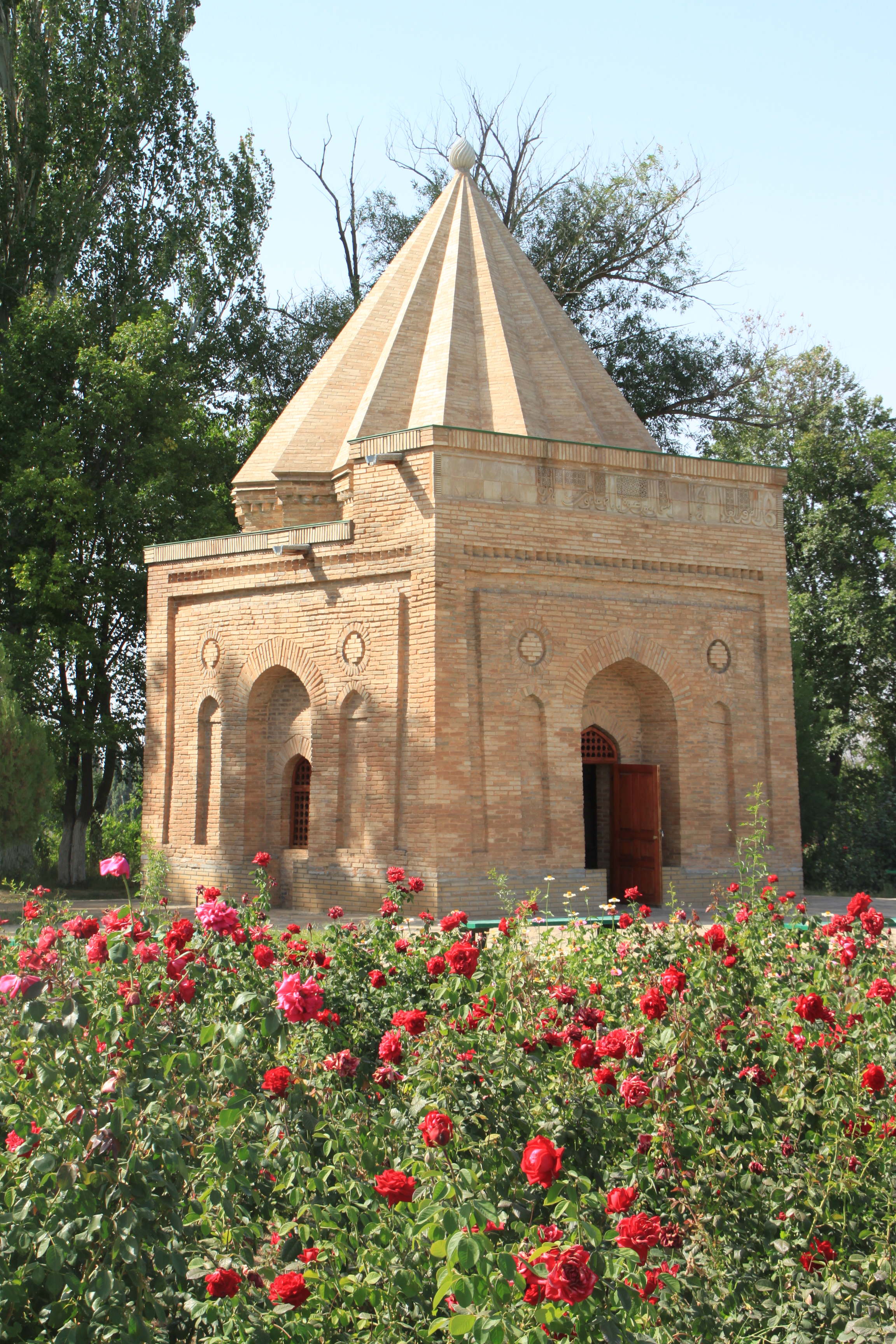 Mausoleum of Babazhi Khatun, in Aisha Bibi, Kazakhstan